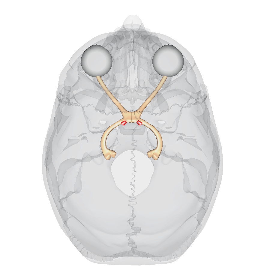 Supraoptic nucleus (shown in red).